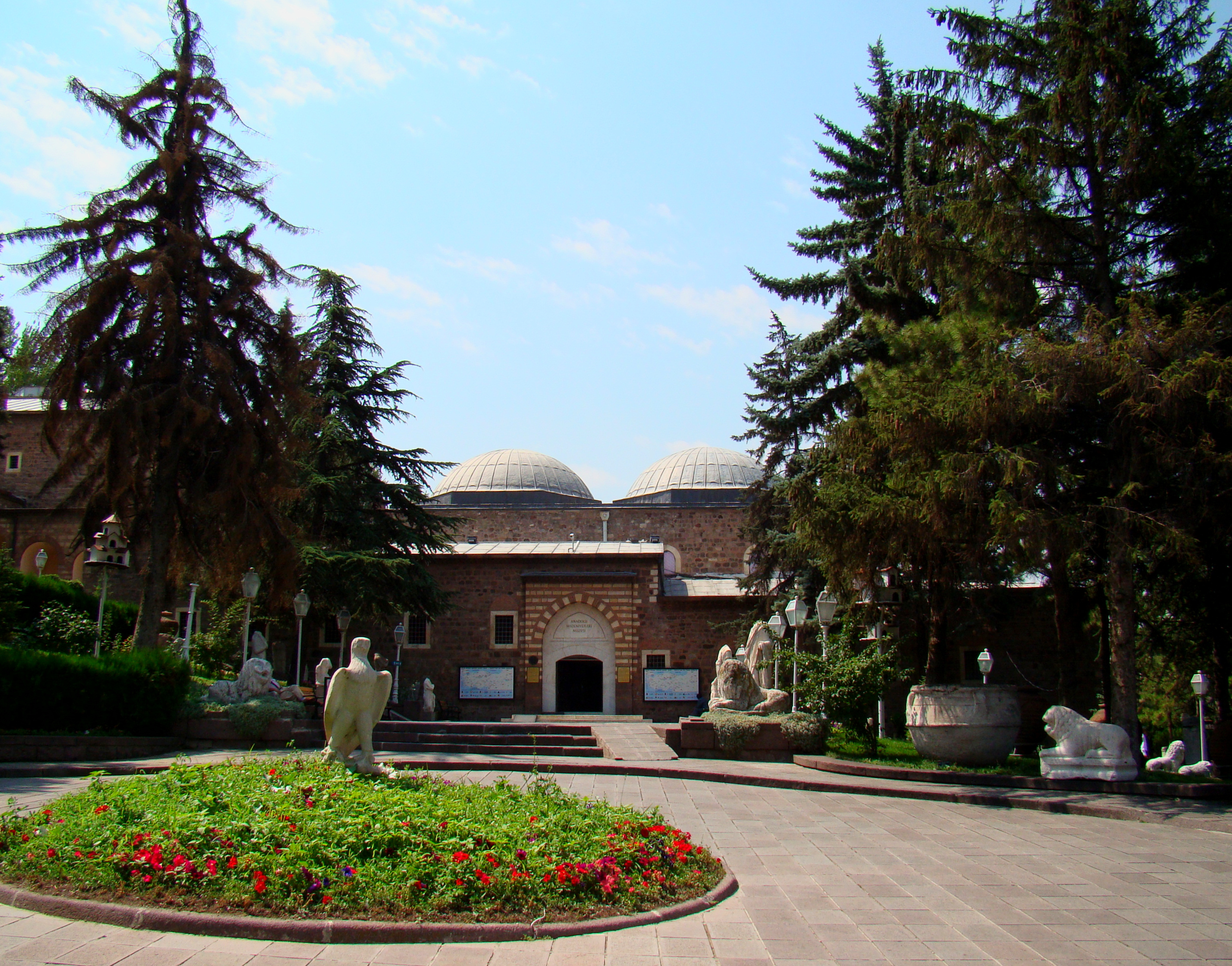 The Museum of Anatolian Civilisations in Ankara, Turkey is housed in a restored 15th-century bedesten (a market vault) with ten domes on top of it.